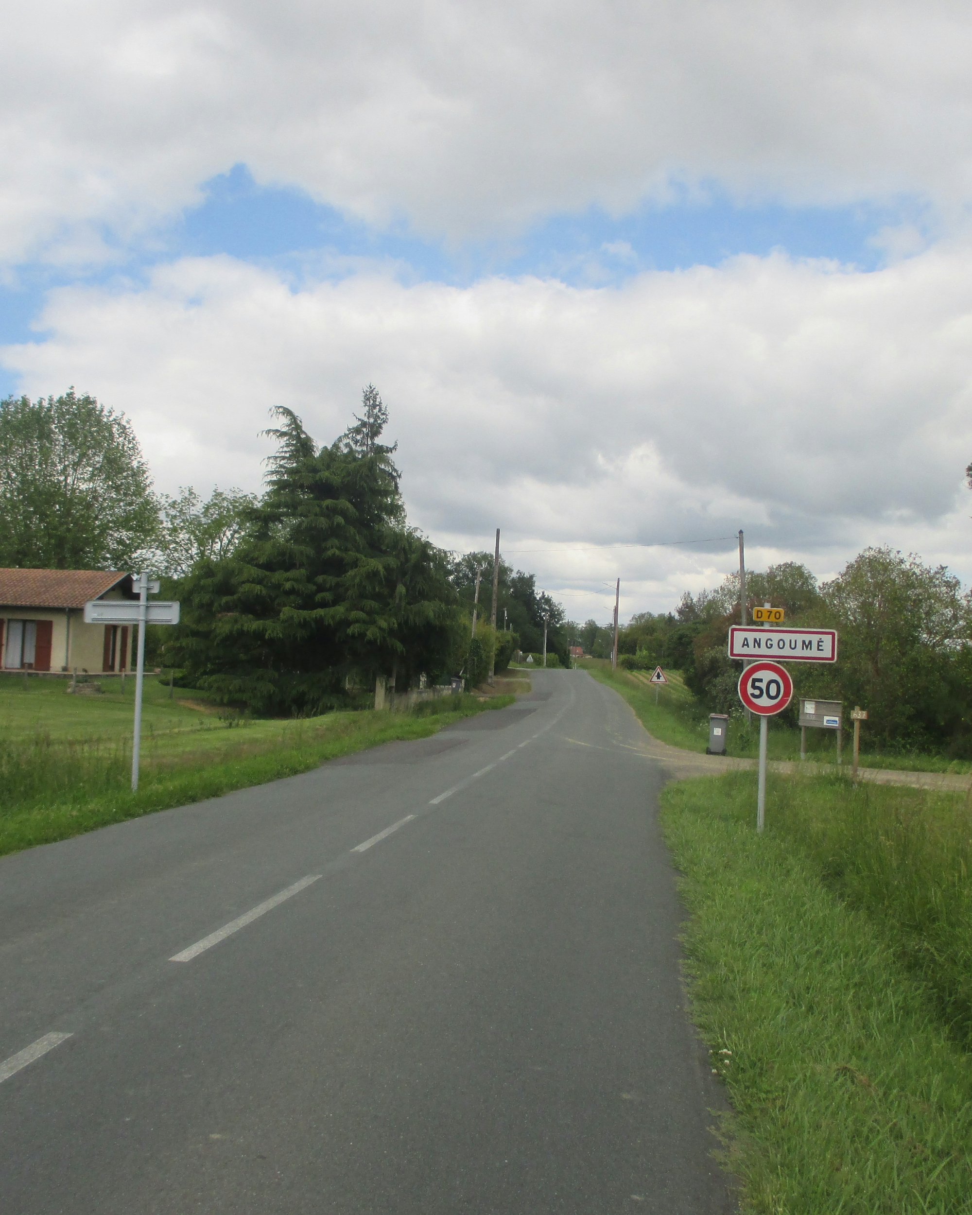 Entrée Angoumé